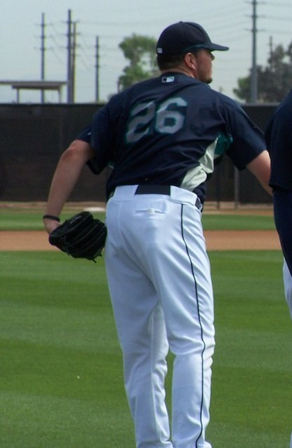 Randy Messenger in 2009 with the Seattle Mariners.